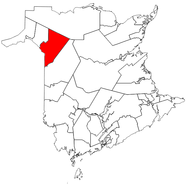 The riding of Victoria-la-Vallée in relation to other New Brunswick electoral districts